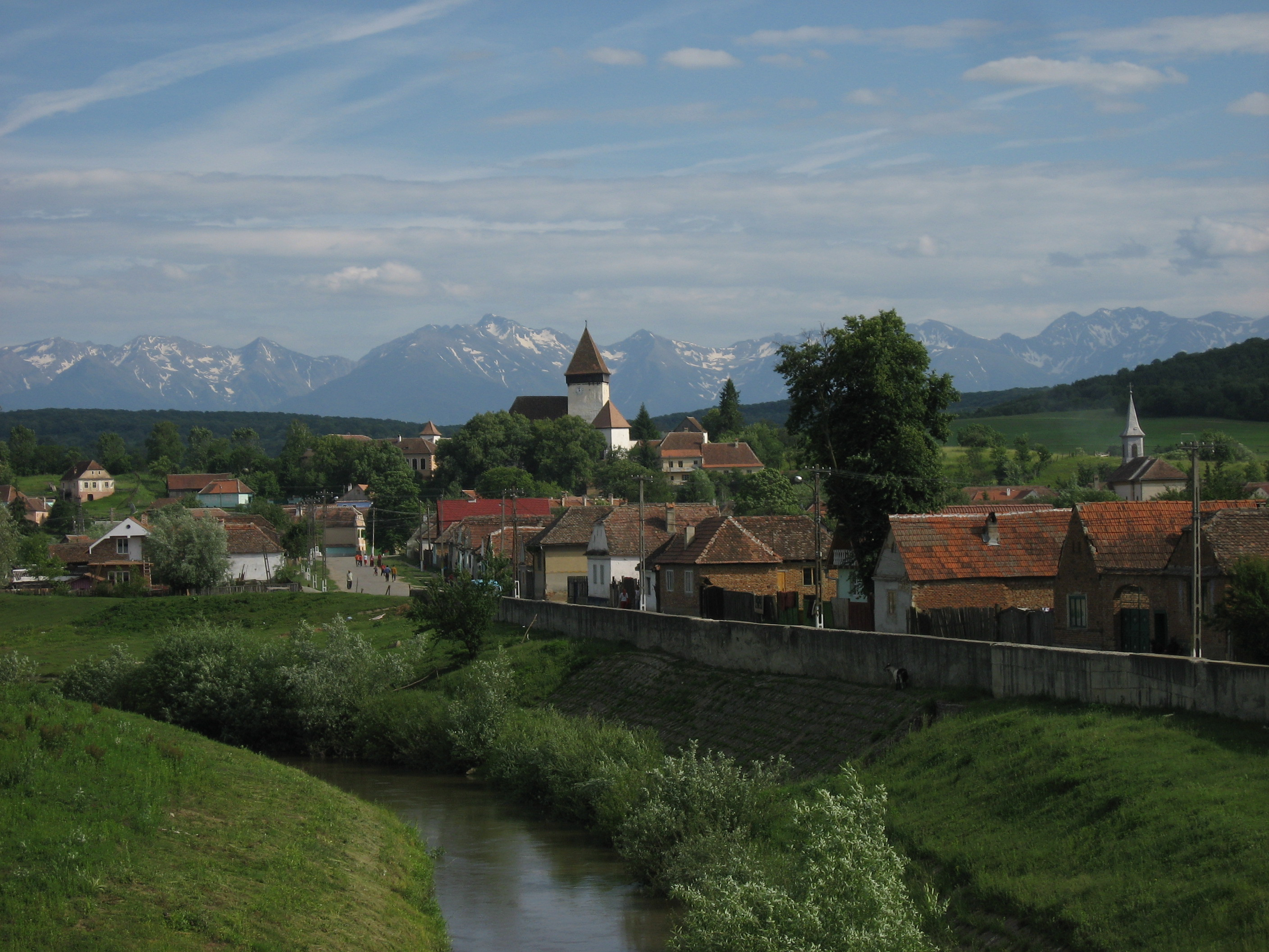 Hosman with the Făgăraș-mountains in the back, shot from the bridge at the village entrance 01